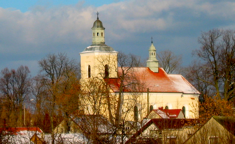 Chrzanów-Kościelec, the Church of St John the Baptist